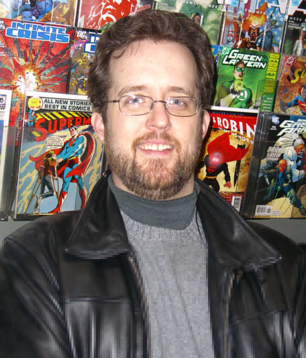 Writer Glenn Haumann at Midtown Comics Times Square, at the midnight signing of The Dark Tower: The Gunslinger Born.